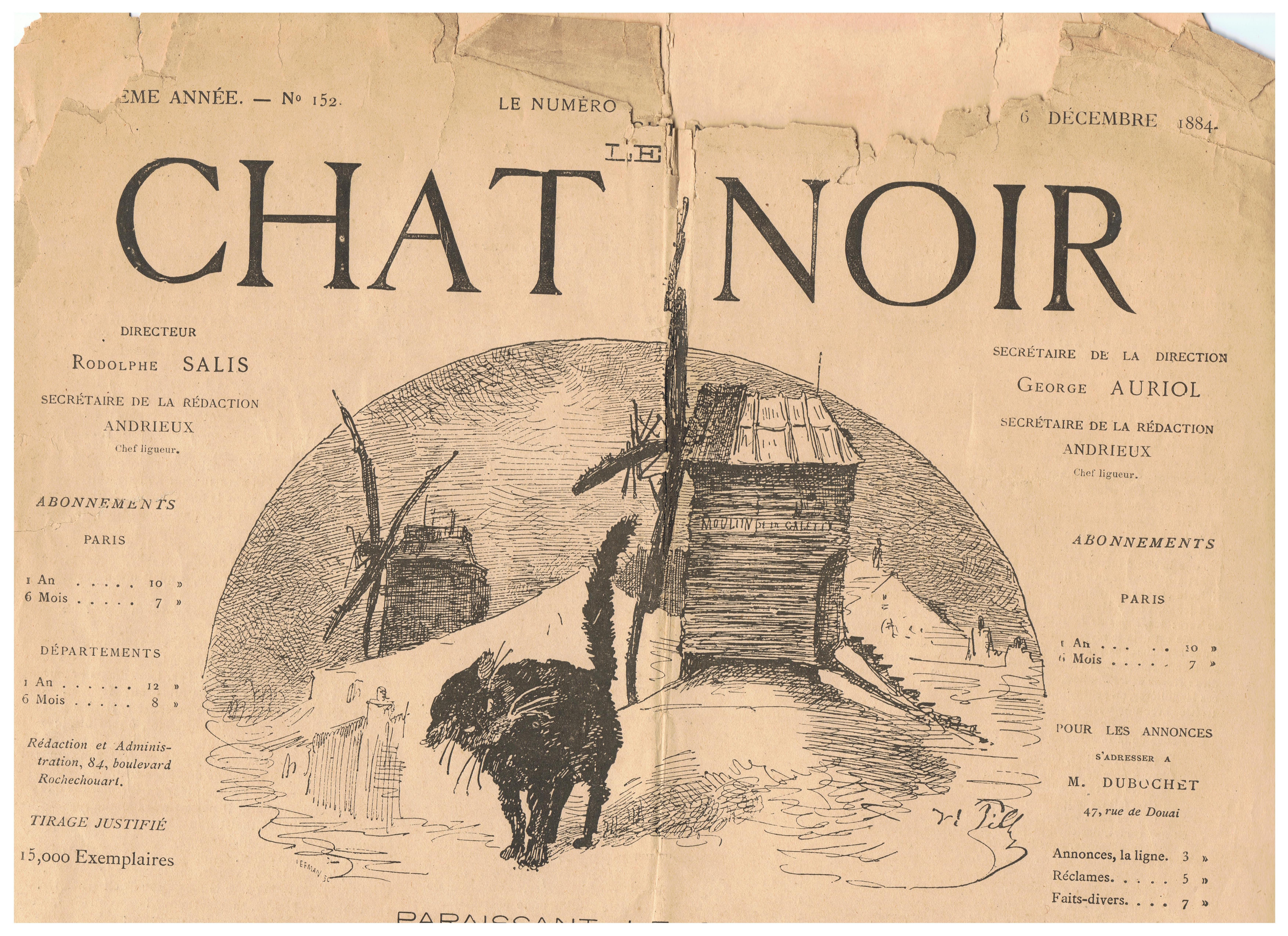 Scan of an original CHAT NOIR journal, number 152, 6 December 1884.